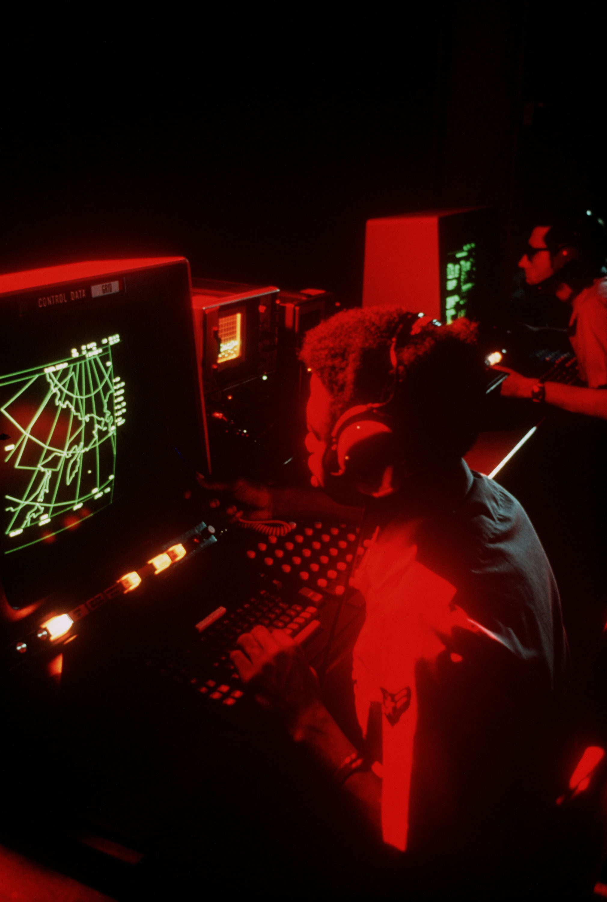 Personnel inside the data processing center for COBRA DANE, an intelligence-gathering phased-array RADAR system specially constructed to monitor Soviet ballistic MISSILE testing on Siberia's Kamchatka Peninsula. The man on the right is Lonnie Humphreys.Location: SHEMYA AIR FORCE BASE, ALASKA (AK) UNITED STATES OF AMERICA (USA)